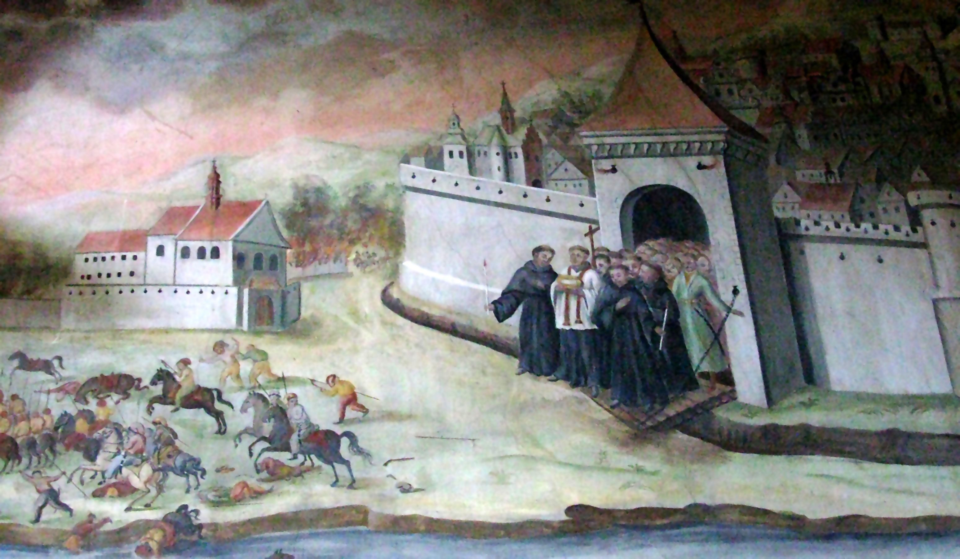 Defence of Przemyśl in 1657 against Georg Rakoczi.